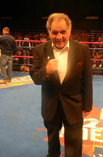 Former world welterweight champion Tony DeMarco in the ring at Fox Theatre, Foxwoods Resort Casino, Mashantucket, Connecticut, October 2, 2010